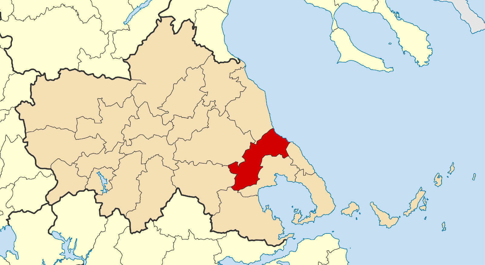 Locator map for Rigas Fereos municipality in Greek region Thessaly (2011)